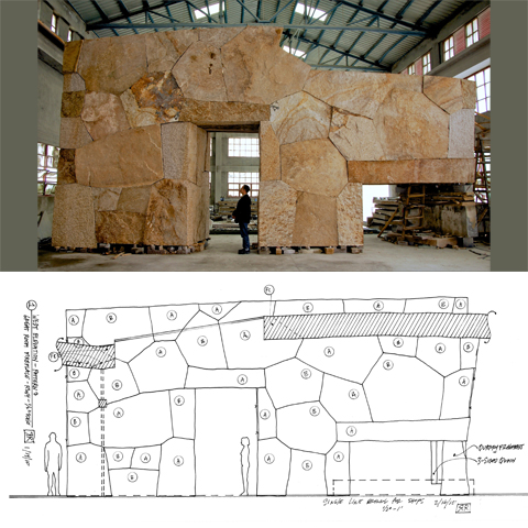 Richard Rhodes' drawing and execution of one of four architectural forms in a private residence.